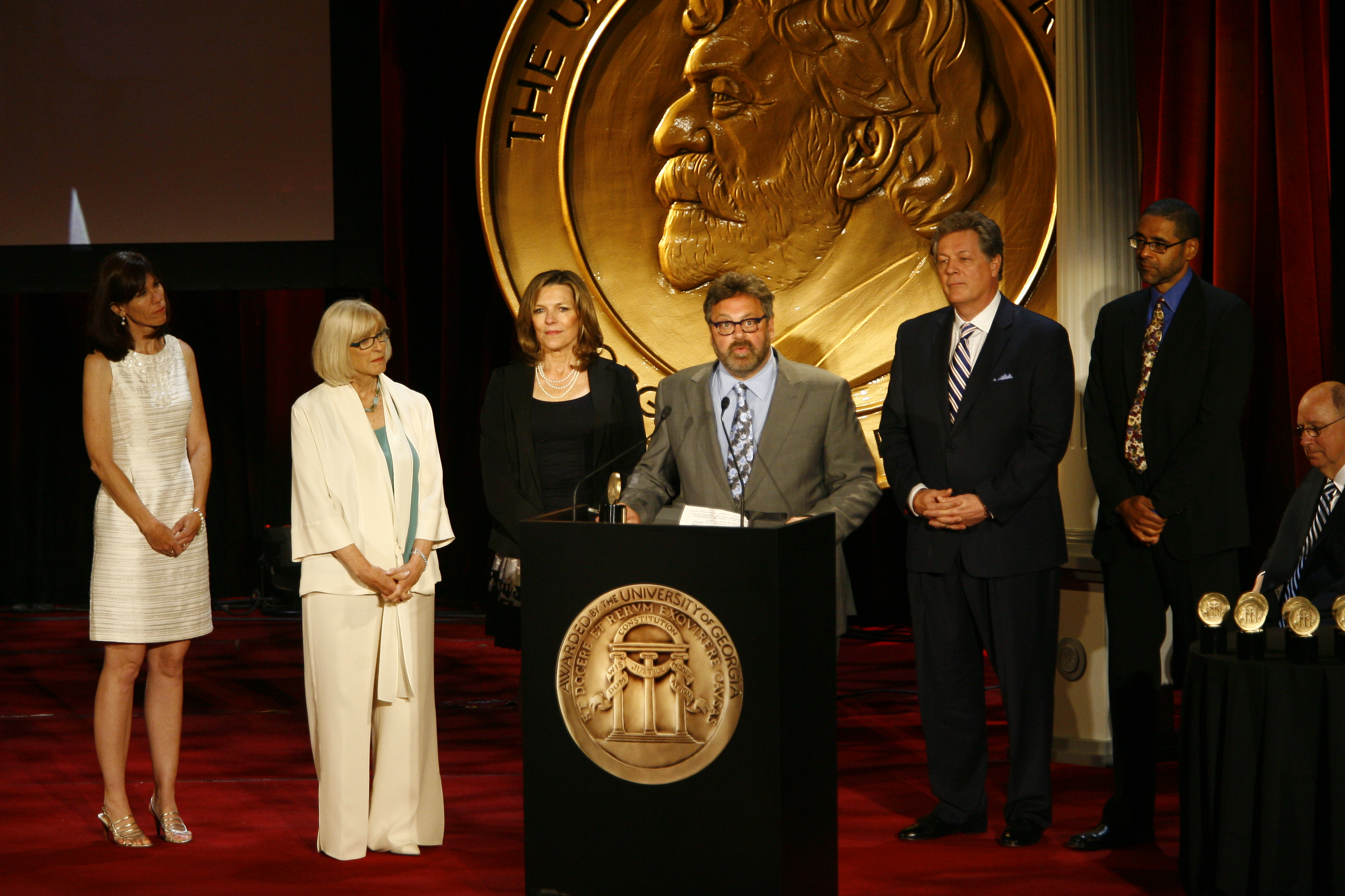 Karen Foshay, Judy Miller, Justine Schmidt, Bret Marcus, John Larson and Rick Wilkinson 69th Annual Peabody Awards Luncheon Waldorf=Astoria Hotel New York, NY USA May 17, 2010